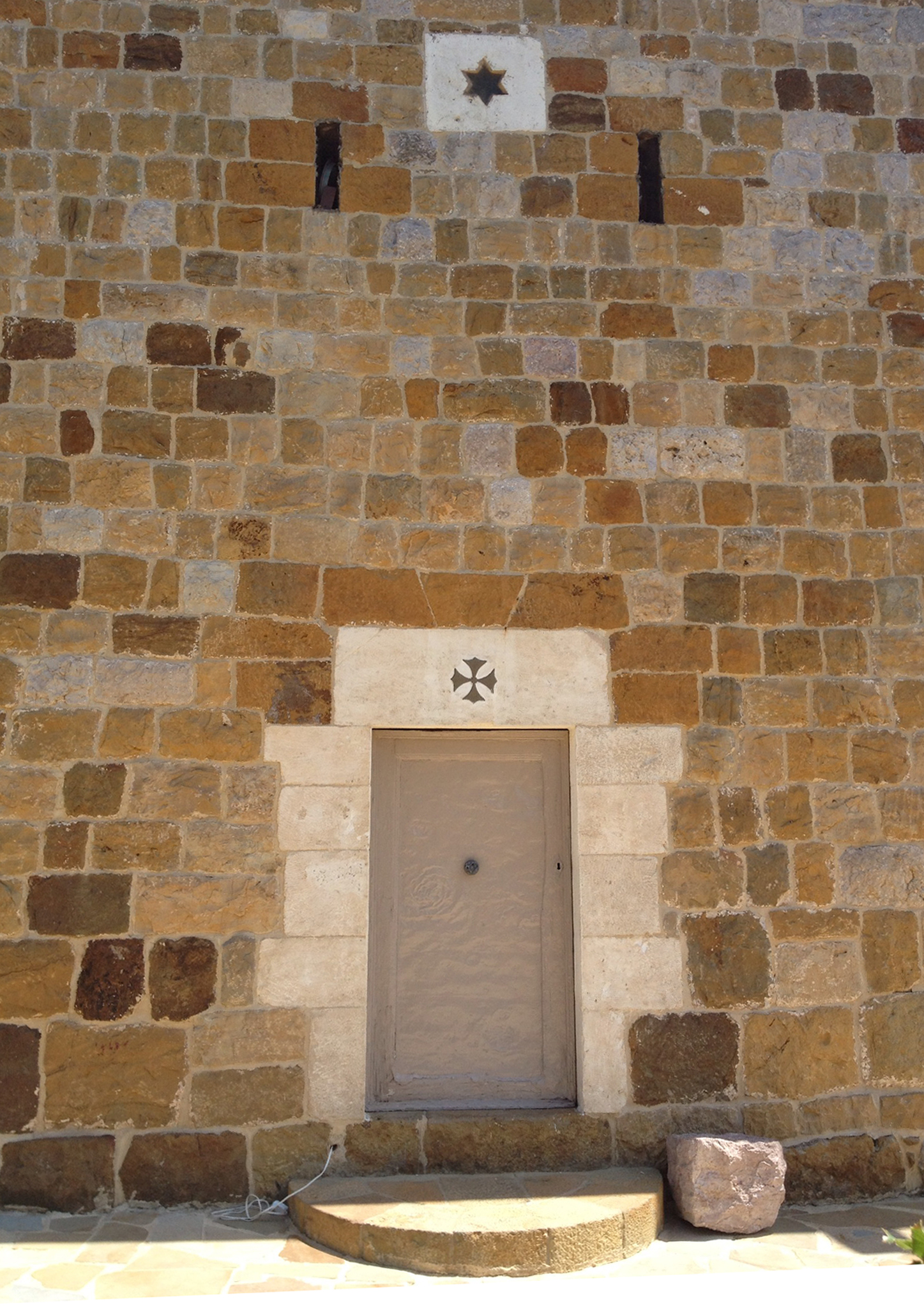 Saint Awtel Church - Women's entrance